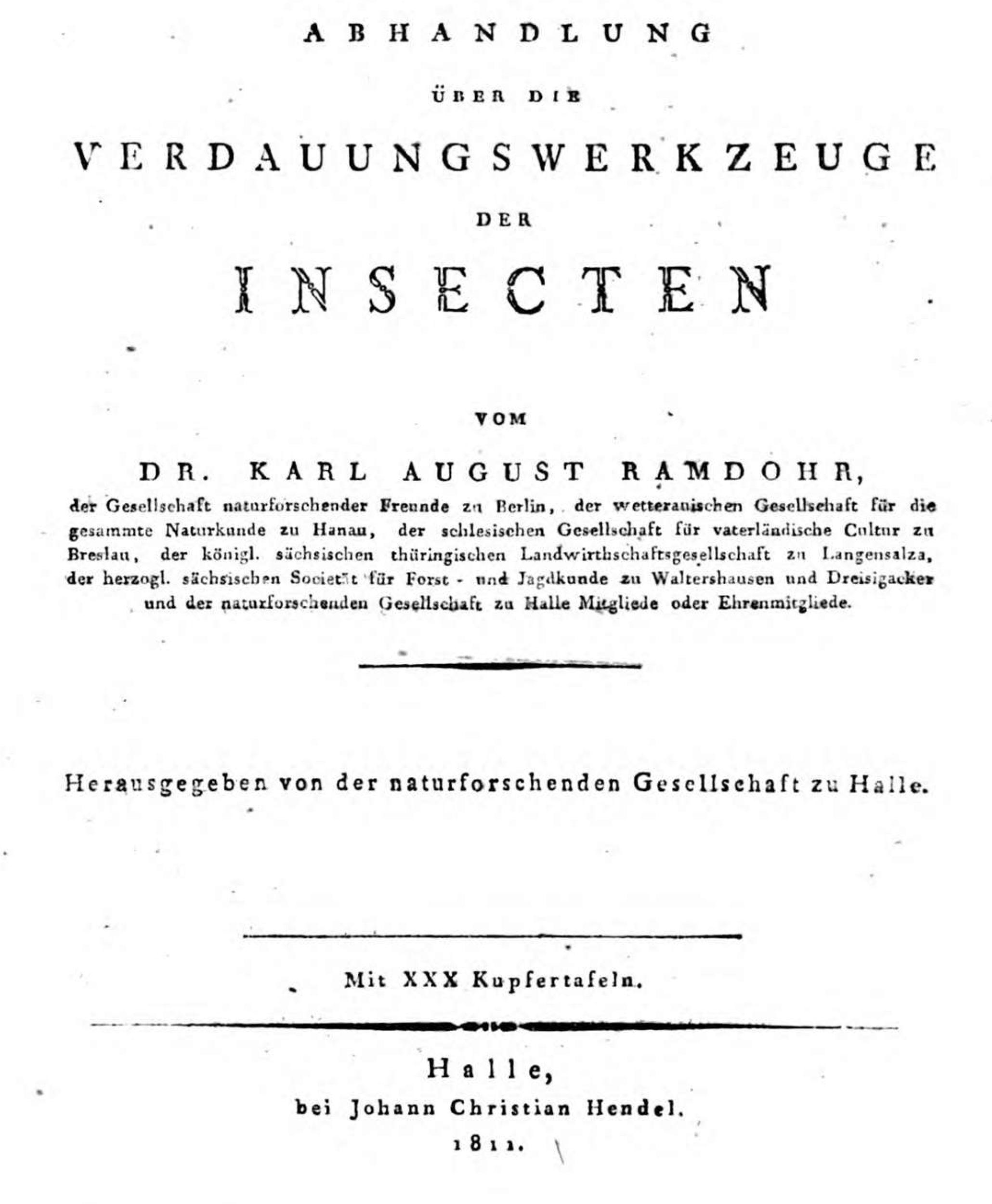 Title Dr. K. A. Ramdohr Verdauungswerkzeuge der Insekten (1811)